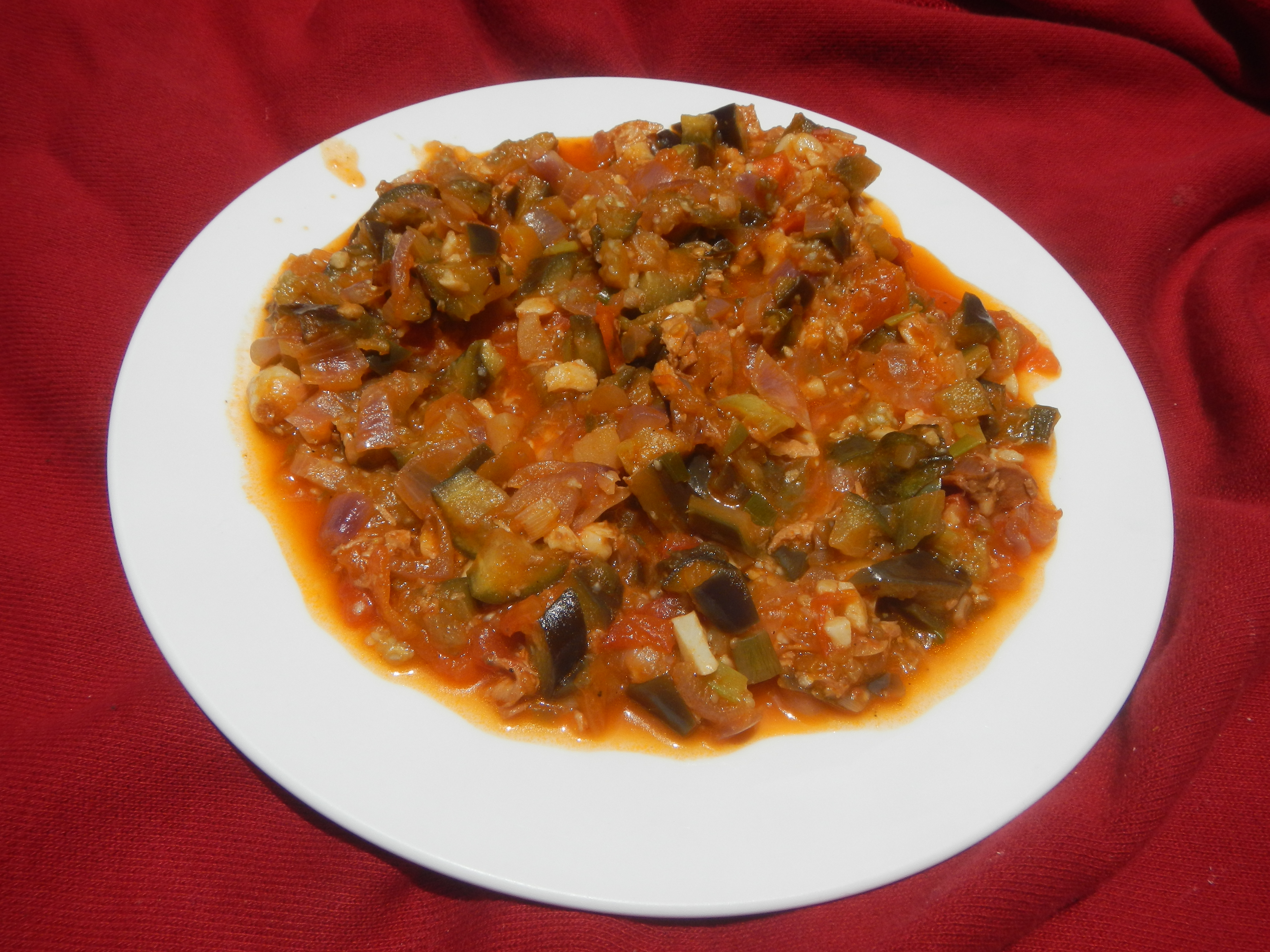 Eggplants in the Philippines Afritada Purefoods Chicken Afritada Shredded chicken breast Bagoong Adobo Adobong laman loob Afritadang talong photos taken in Barangay Poblacion 14°57'17"N 120°54'2"E Baliuag, Bulacan, Bulacan province (Note: Judge Florentino Floro, the owner, to repeat, Donor Florentino Floro of all these photos hereby donate gratuitously, freely and unconditionally all these photos to and for Wikimedia Commons, exclusively, for public use of the public domain, and again without any condition whatsoever).